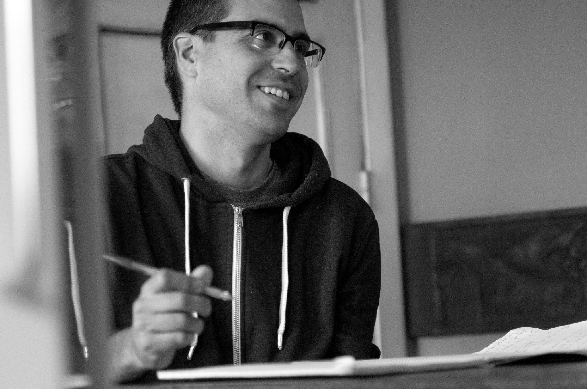 Ander Izagirre